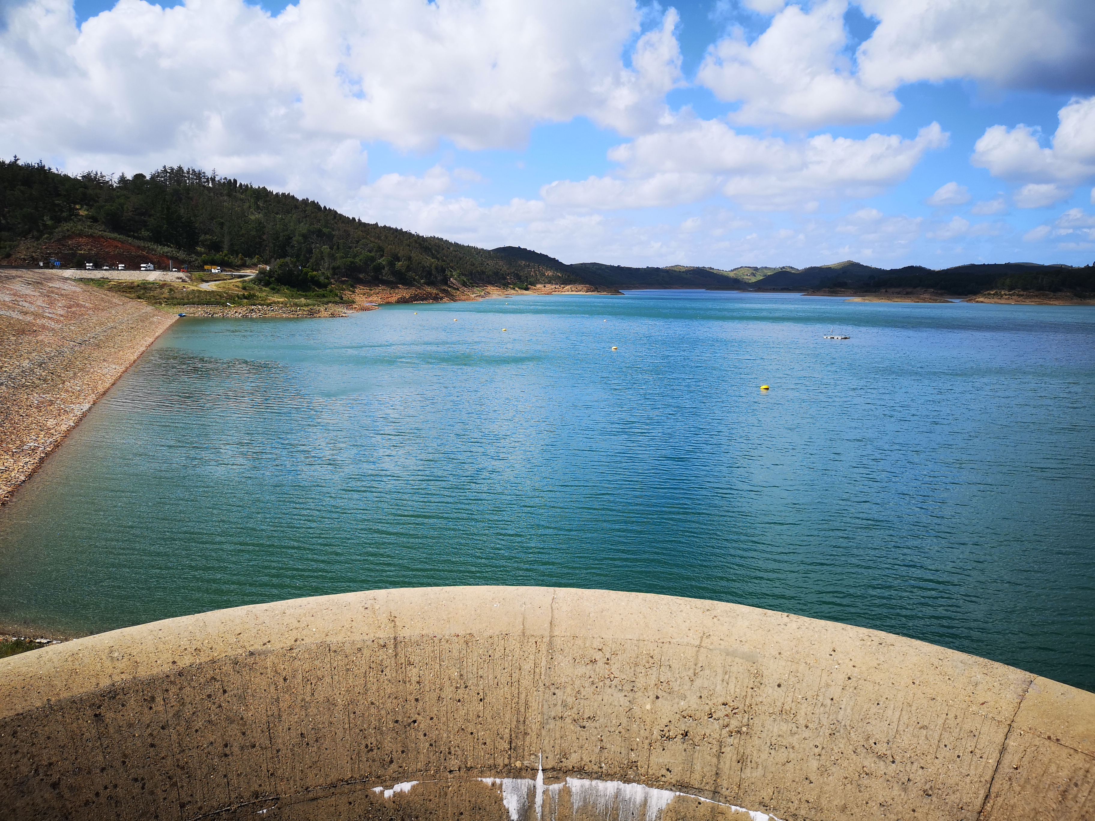 smacap_Bright